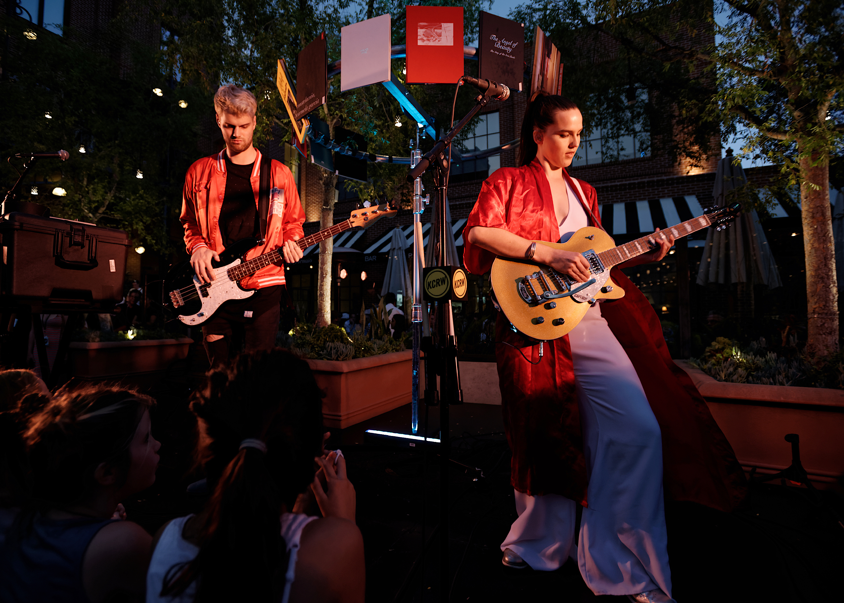 Sofi Tukker (Sophie Hawley-Weld and Tucker Halpern) performing live at KCRW Summer Nights, at One Colorado Old Pasadena in Pasadena (Los Angeles) California on Saturday June 4th, 2016.